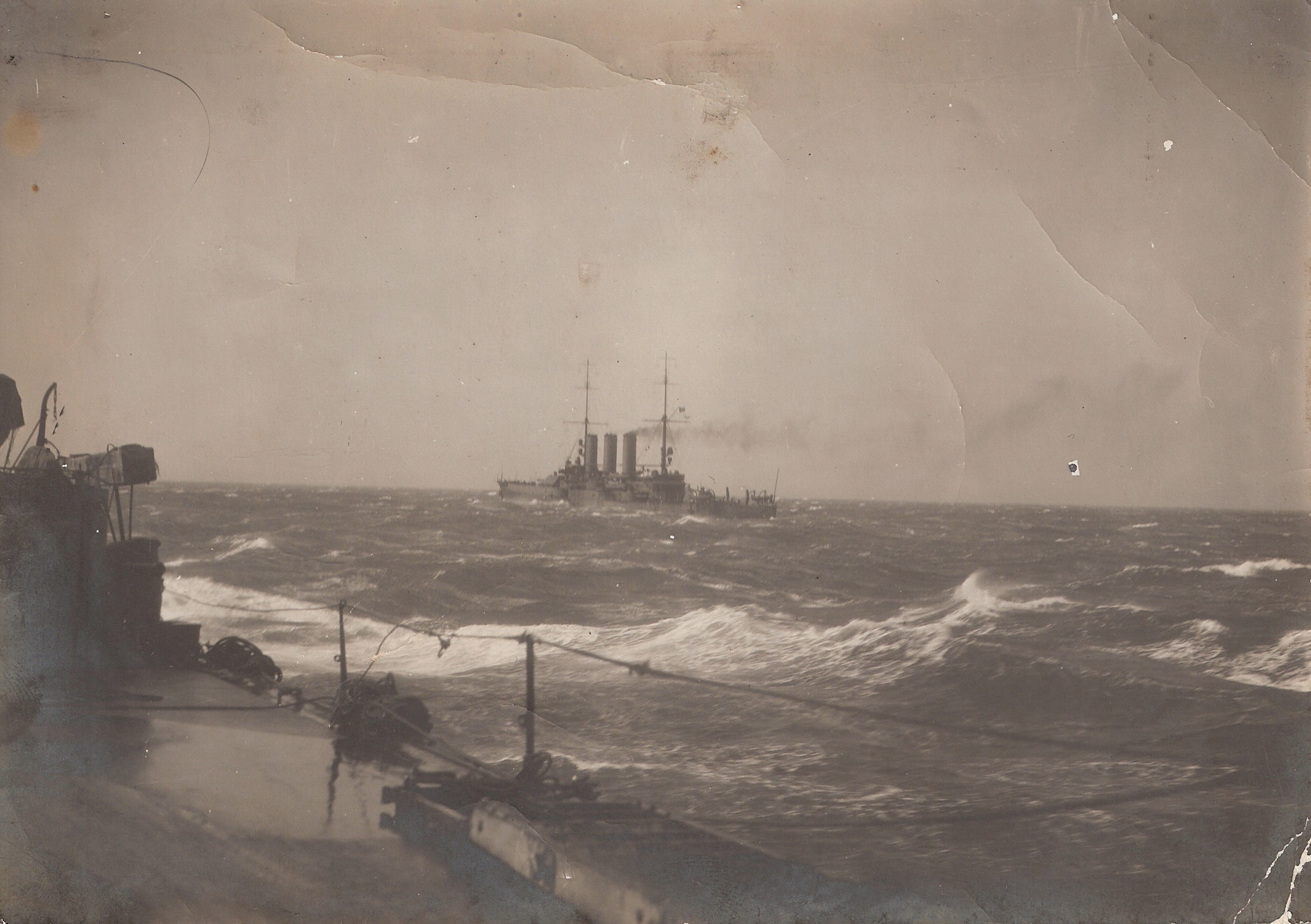 HM Italian ship "Libia", circa 1923. Image by Admiral Ernesto Burzagli (1873-1944). The original picture, scanned by Emiliano Burzagli, belongs to the Private archive of Burzaghi family, Italy.